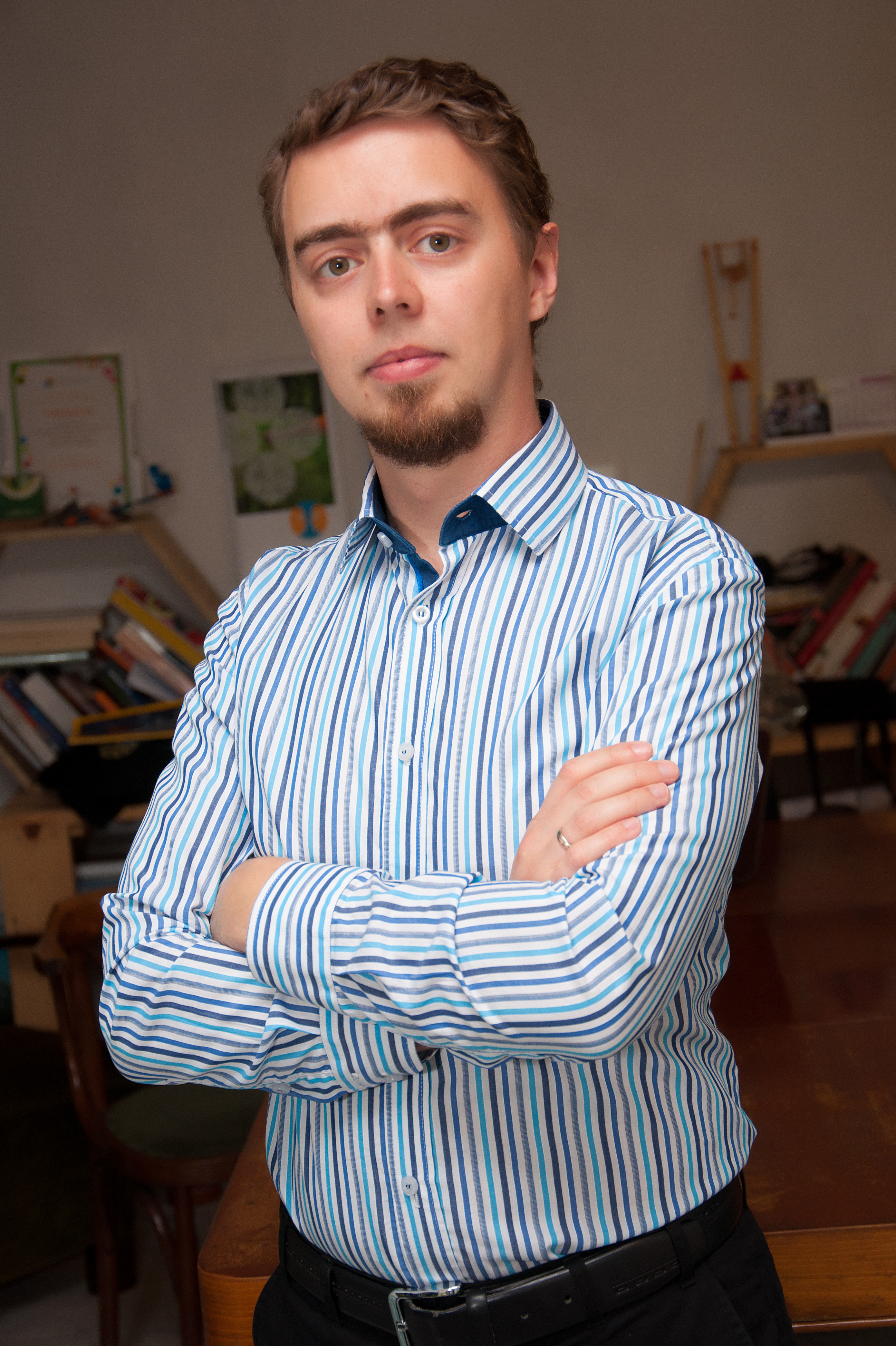 Alexander Nenov - bulgarian entrepreneur